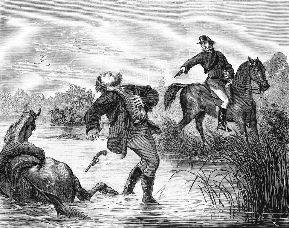 Death of Australian bushranger Captain Thunderbolt, wood engraving, 23.3 x 33.0 cm.